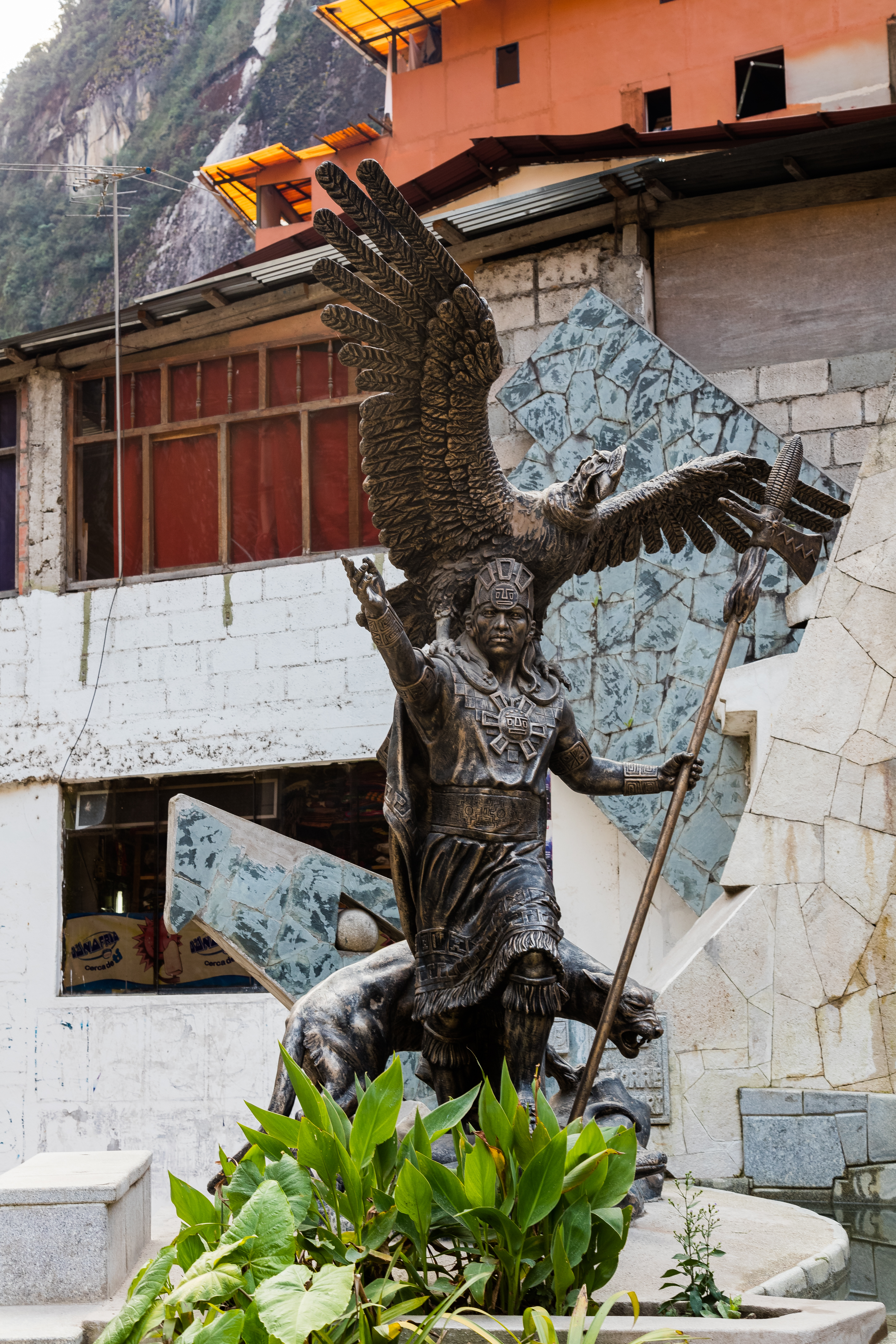 Aguas Calientes, Cuzco, Peru